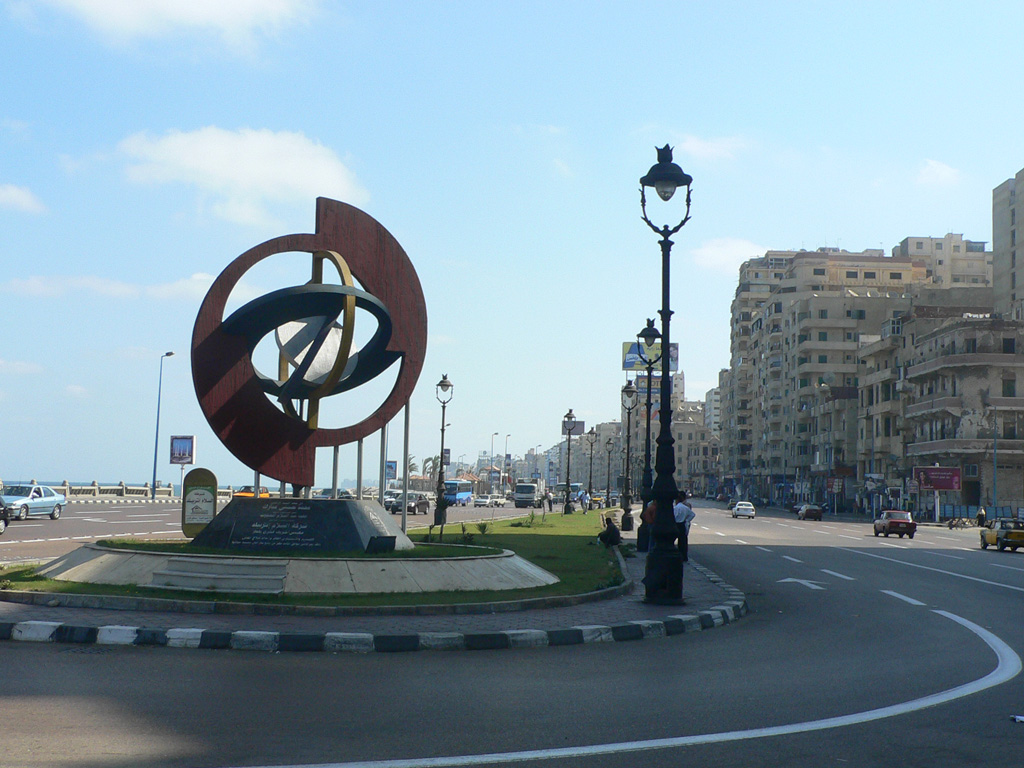 Alexandria corniche View